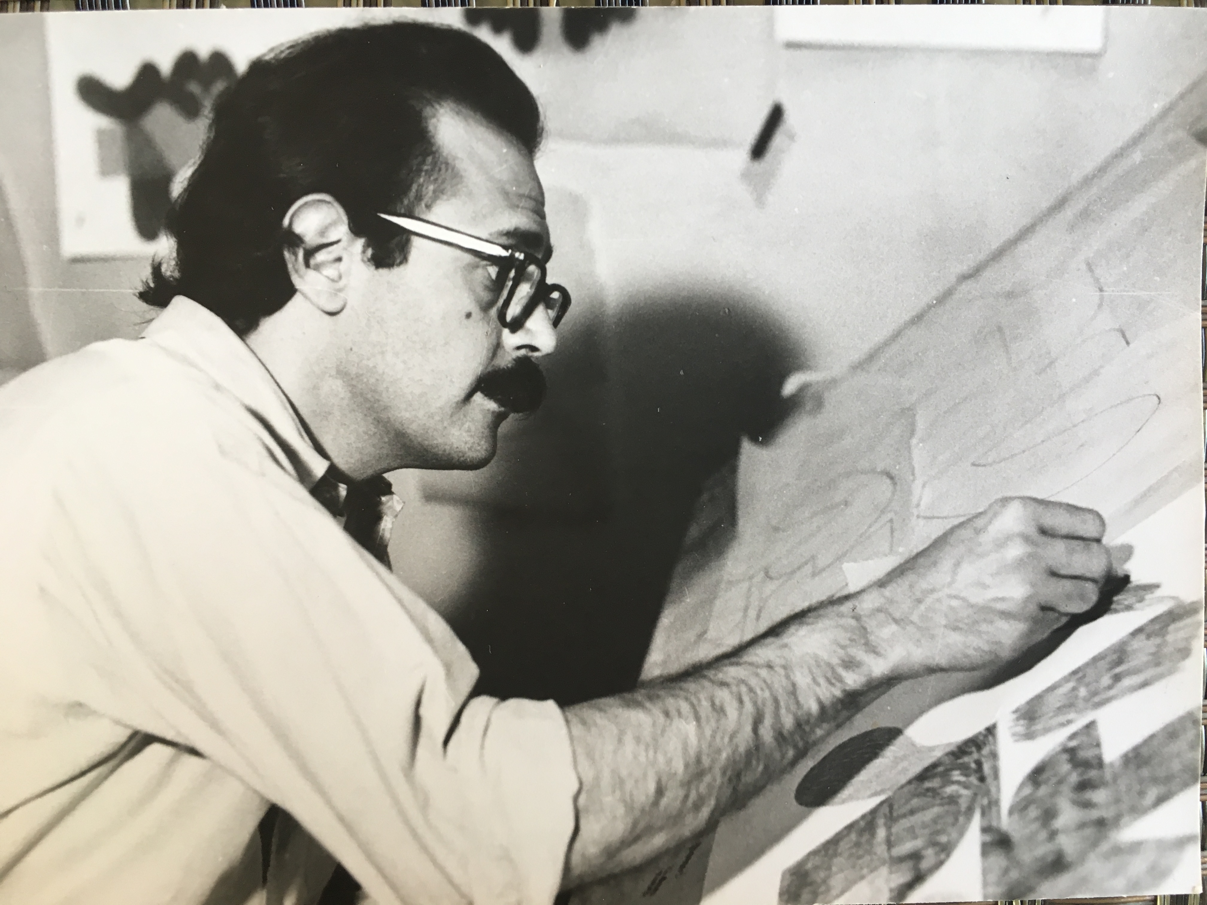 Depicted person: Mario Volpe – Colombian artist